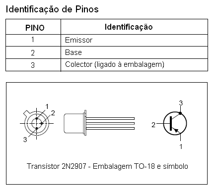 2N2907 PNP bipolar junction transistor, the symbol and the package form factor (TO-18) and pin assignments